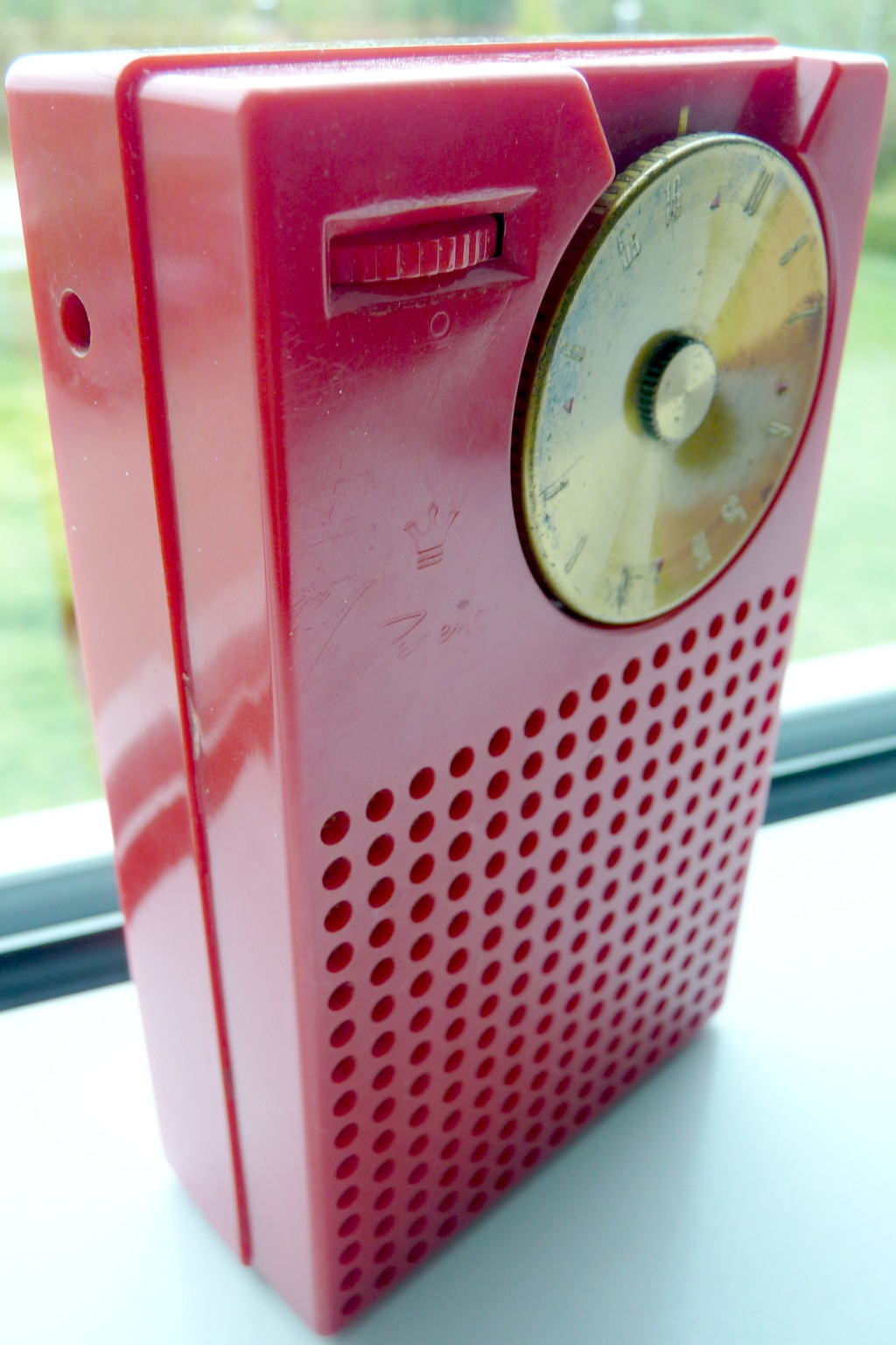 Perspective view of a red Regency TR-1 transistor radio.